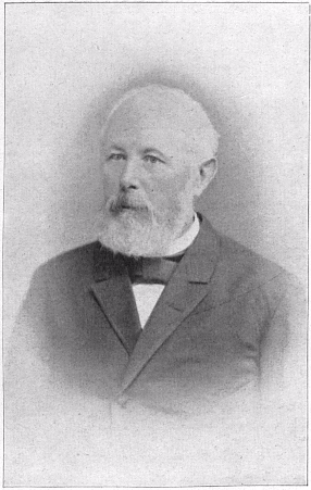 Portrait photograph of Friedrich Dornblüth, German physician and author